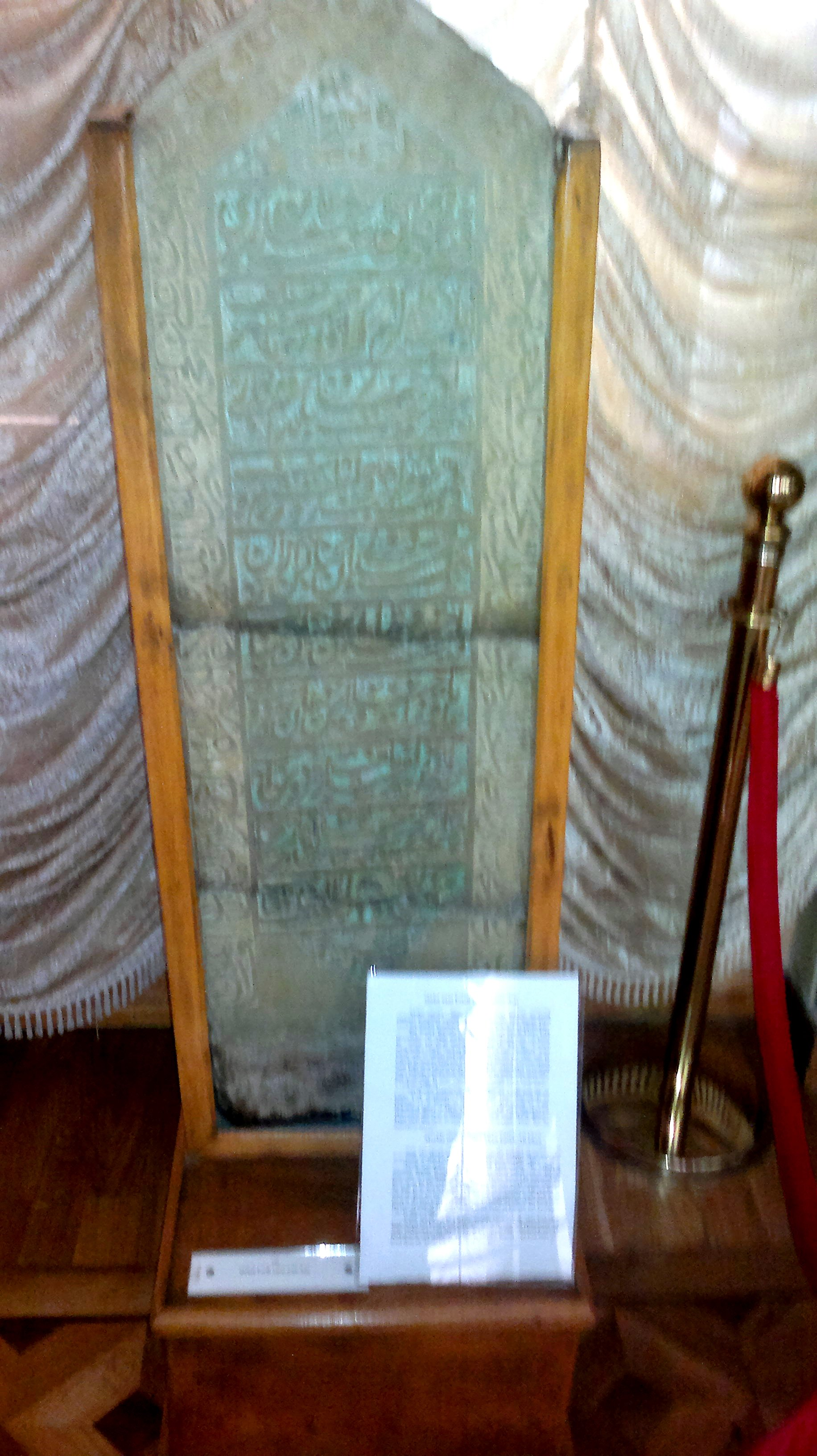 Gravestone of Fatali Khan of Guba. Museum of History of Azerbaijan. Founded on the territory of Bibi-Eybat mosque.